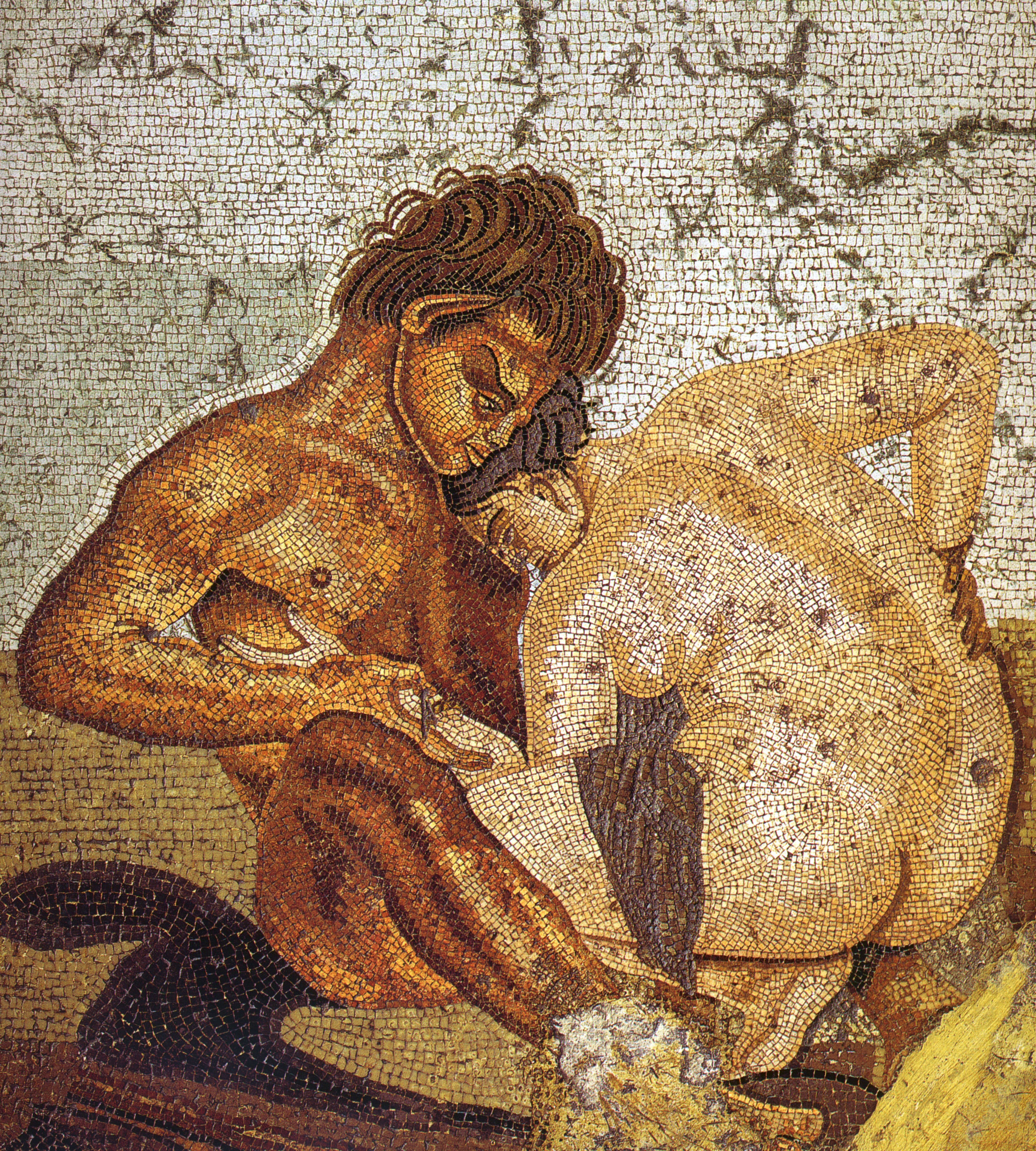 Satyr and nymph. Roman mosaic from the cubiculum in the Casa del Fauno (VI 12, 2-5) in Pompeii. Museo Archeologico Nazionale (Naples), inv. nr. 27707.